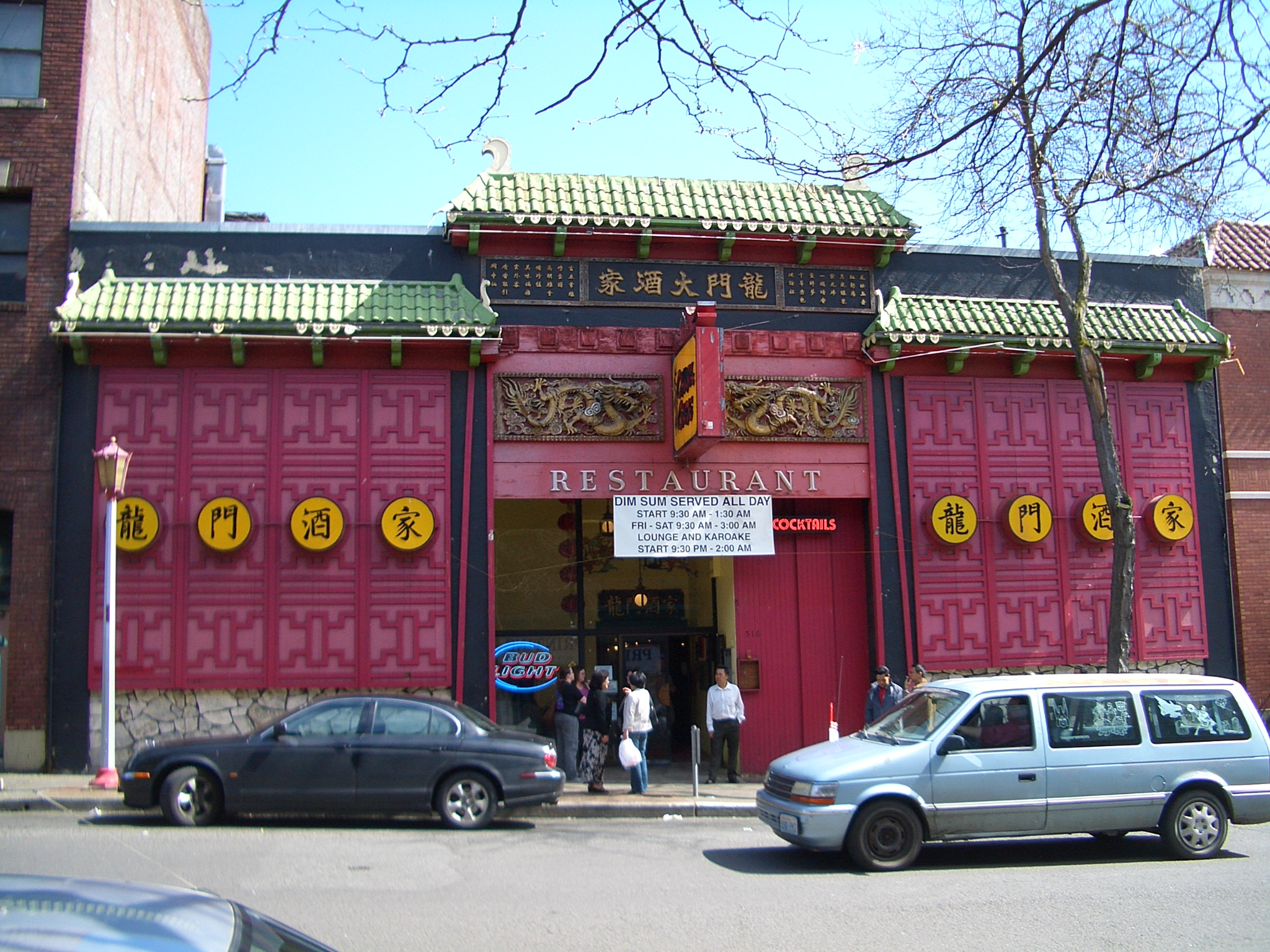 China Gate, a restaurant in Seattle's Chinatown. The building was originally a theater building for a Peking Opera company.